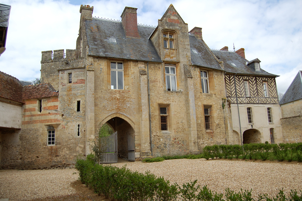 Houblonniere house